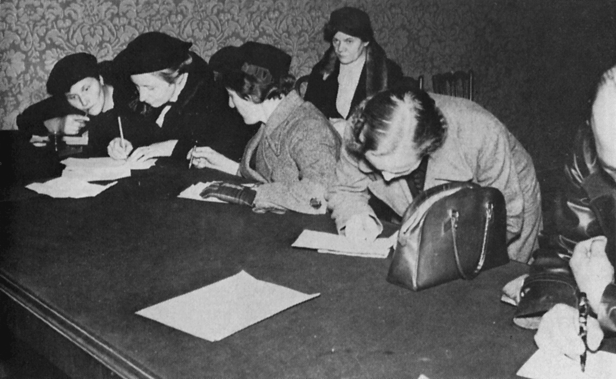 Czechs expelled from the Sudetenland. Filling the questionnaire for Refugees office in the 13th 10. 1938 after transport in Prague